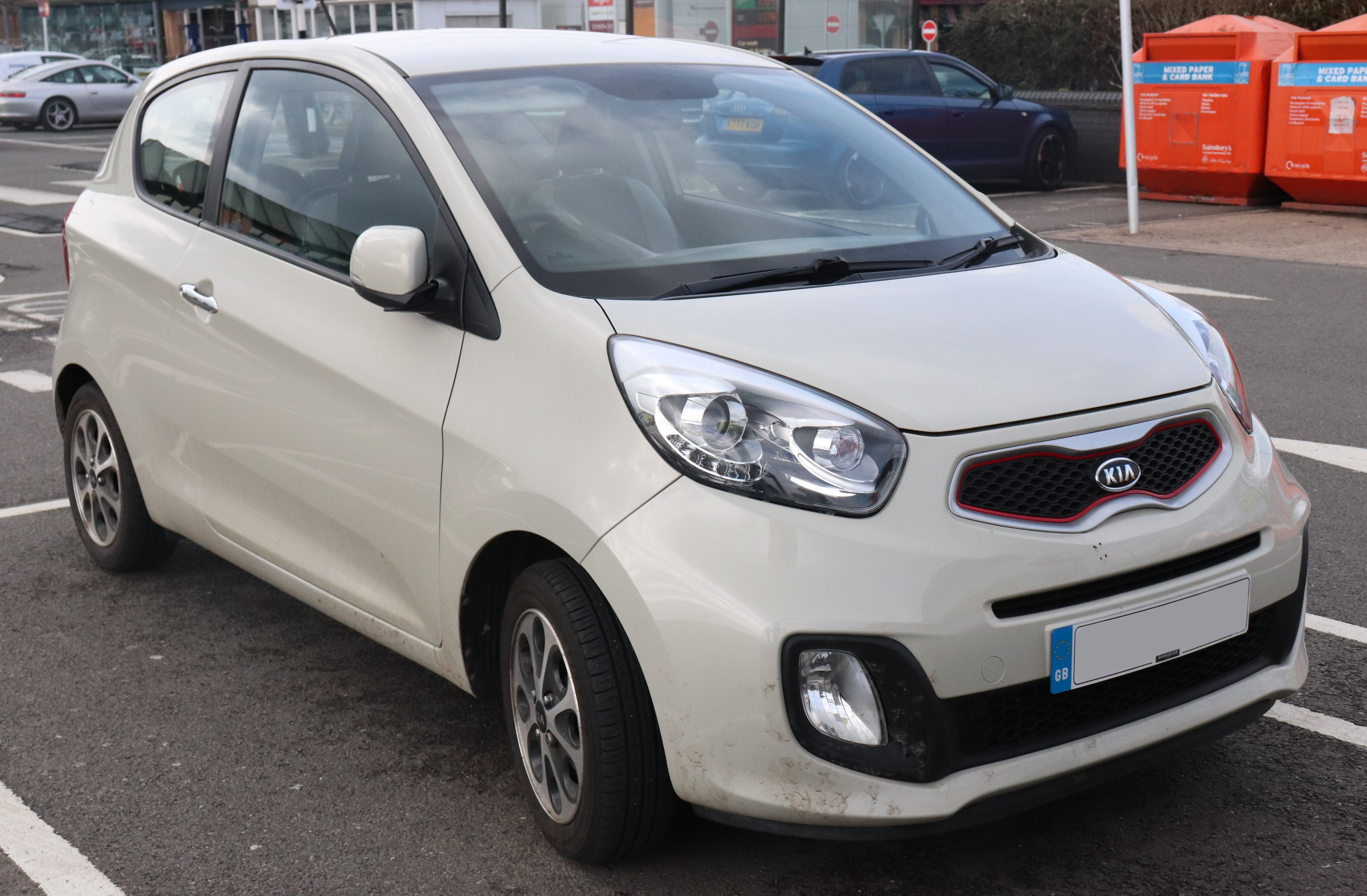 2012 Kia Picanto Halo Ecodynamics 1.2 Front Taken in Leamington Spa